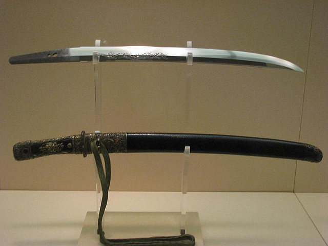 Antique Japanese wakizashi with horimono.